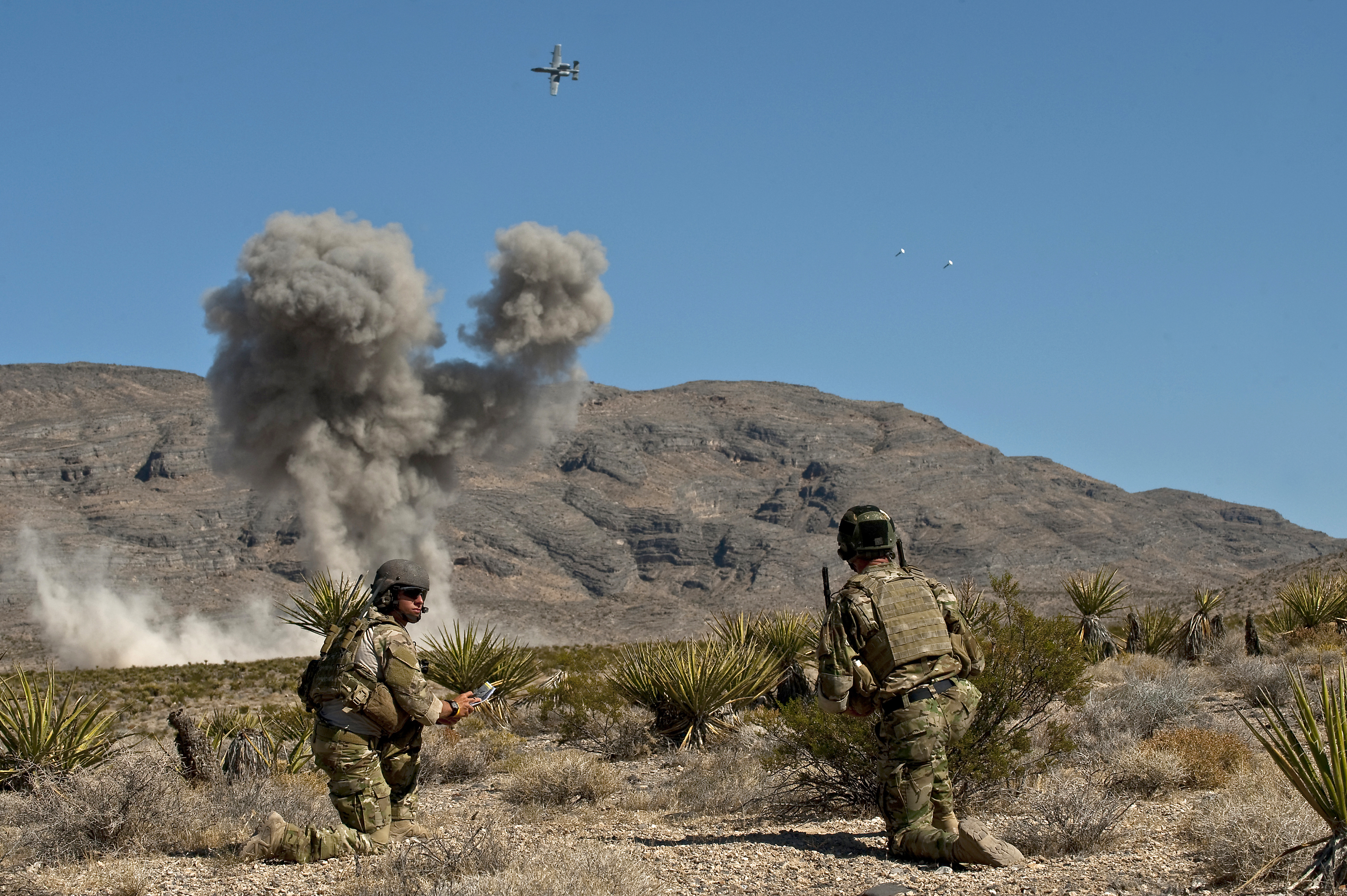 U.S. Air Force Senior Airman Corban Caliguire and Tech. Sgt. Aaron Switzer, 21st Special Tactics Squadron joint terminal attack controllers, from Pope Field, N.C., look on as an A-10 Thunderbolt II releases its munitions during a close air support training mission Sept. 23, 2011, at the Nevada Test and Training Range. Joint Terminal Attack Controllers perform proficiency training with U.S. Air Force Weapons School students during the close air support phases of the Weapons School six-month, graduate-level instructor course.